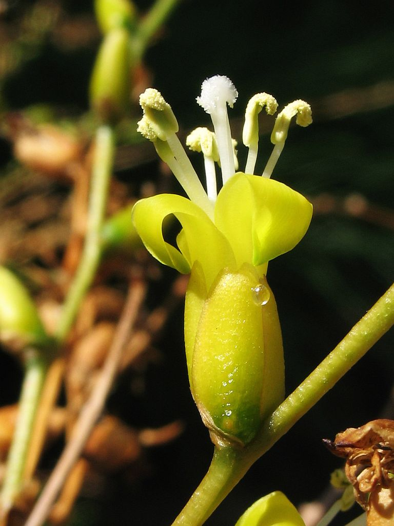 Deuterocohnia recurvipetala in cultivation at the Botanical Garden of Heidelberg, Germany.